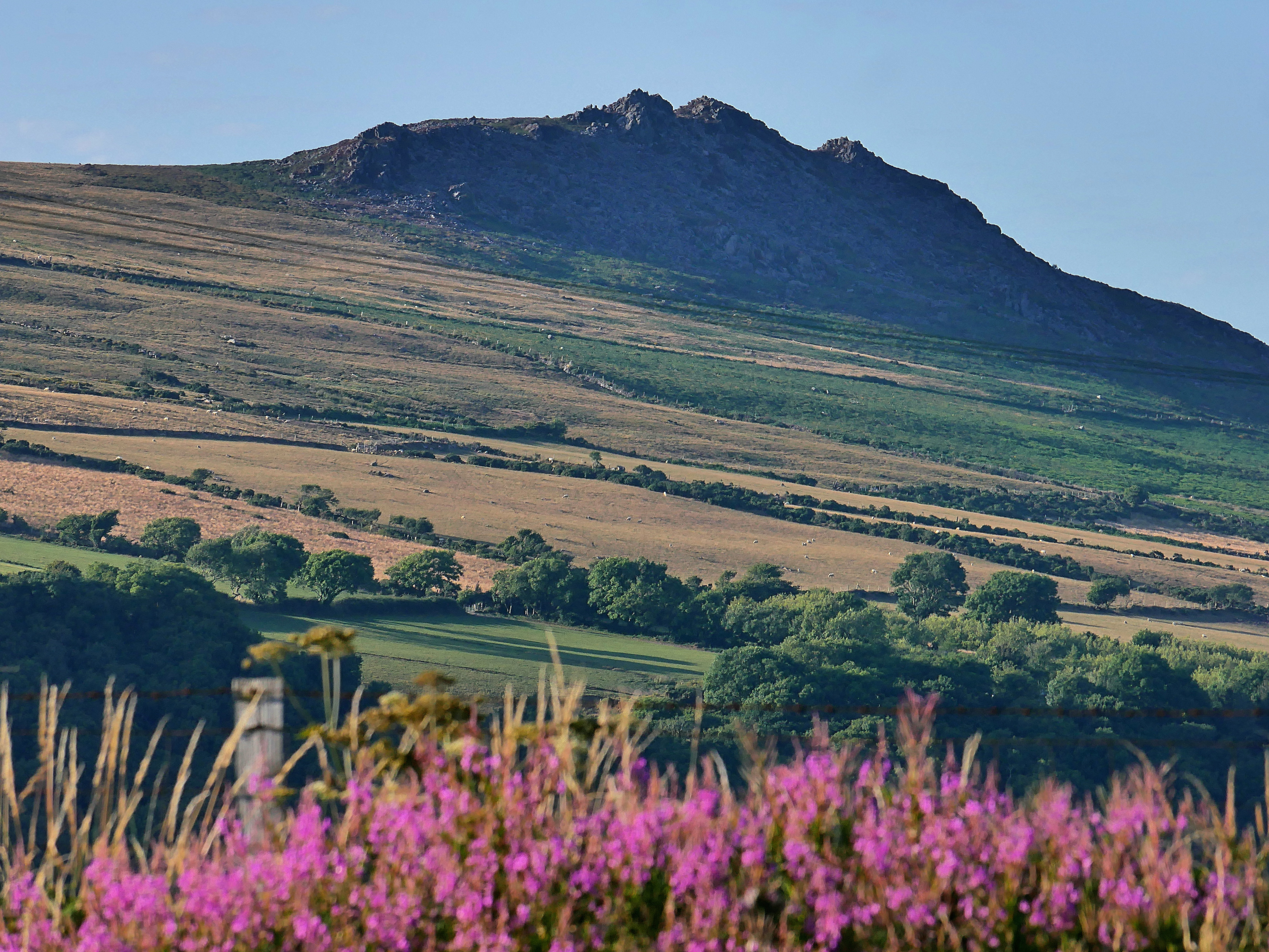 Preseli Hills, Carn Ingli